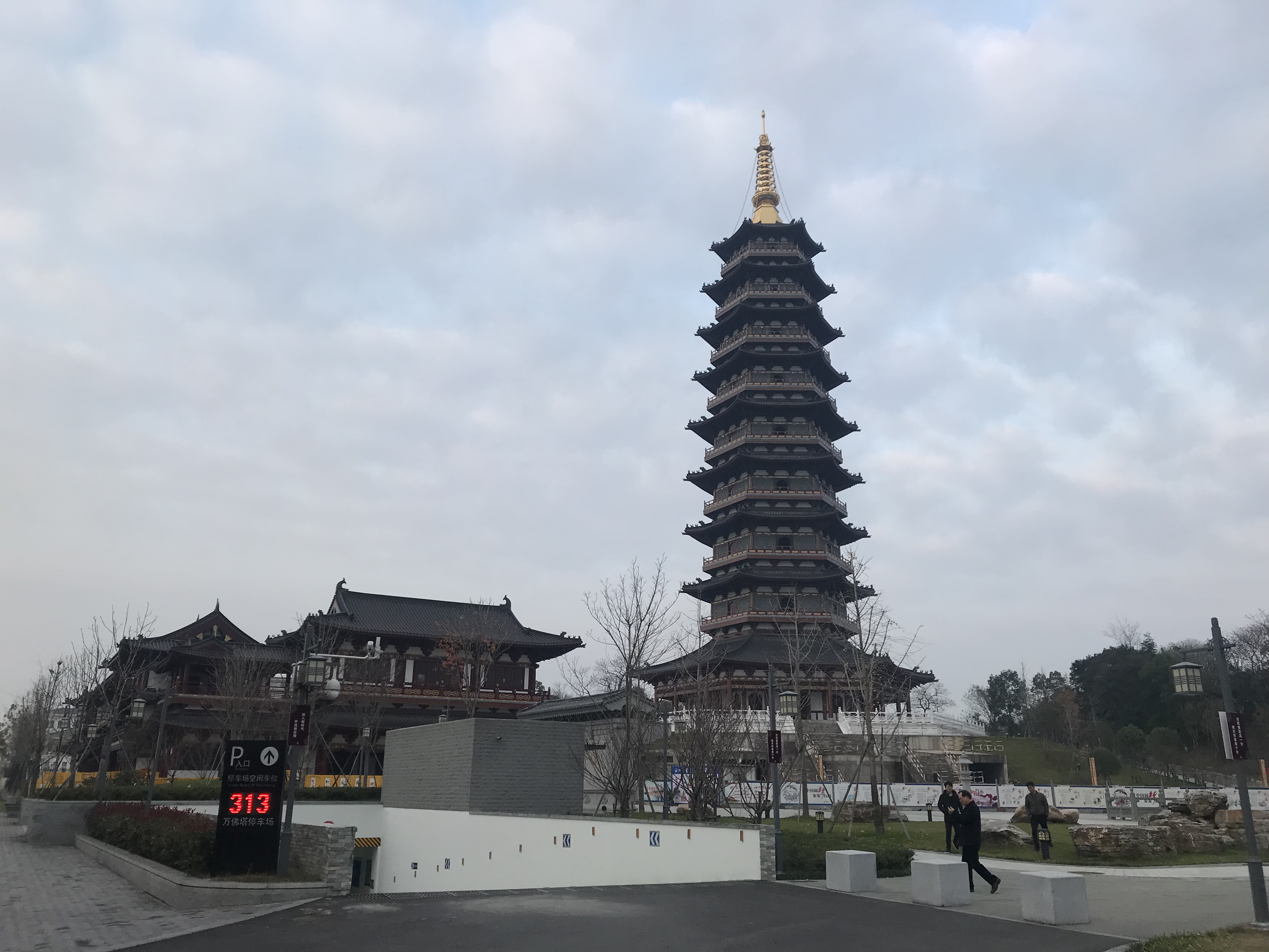 201812 Wanfo Pagoda Park, not open to public yet.